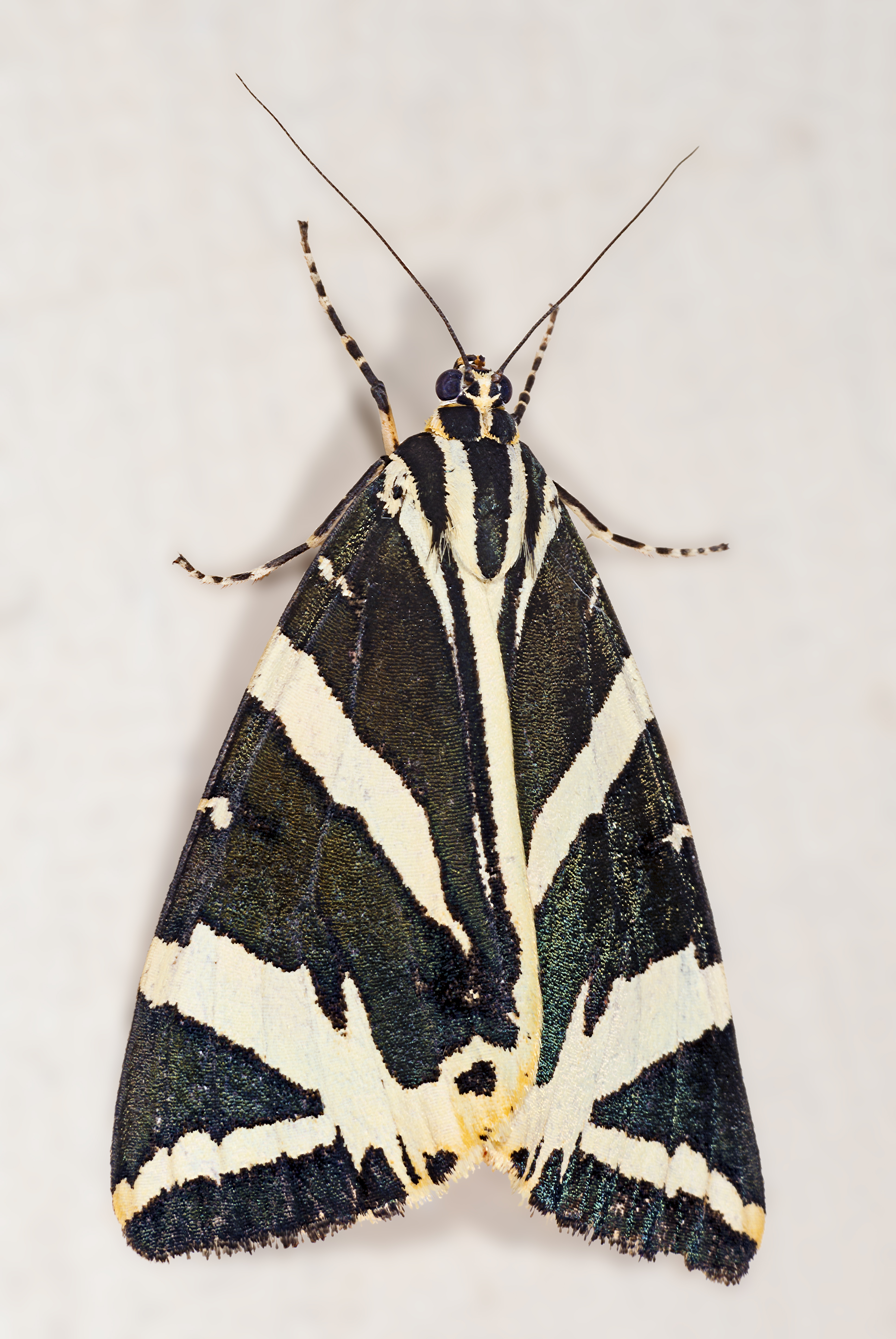 Jersey Tiger. Dorsal side.